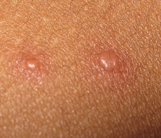 chickenpox vesicles